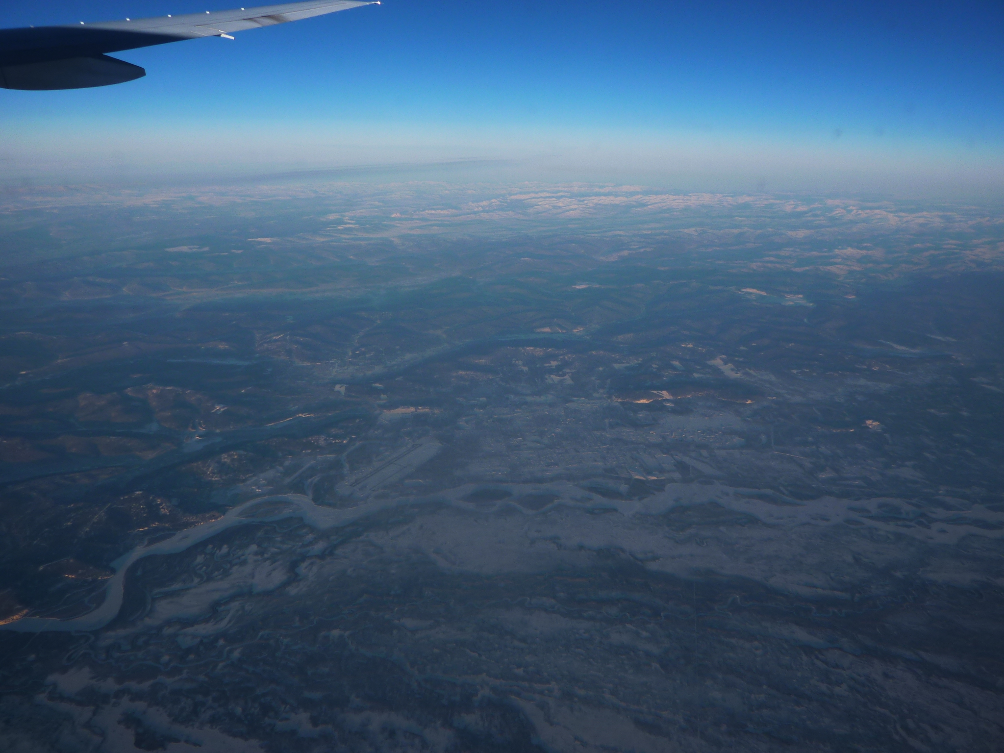 Aerial view of Fairbanks, Alaska, and the Tanana River. Seen from a non-stop AA flight Chicago-Beijing. Fairbanks Airport is in center left.